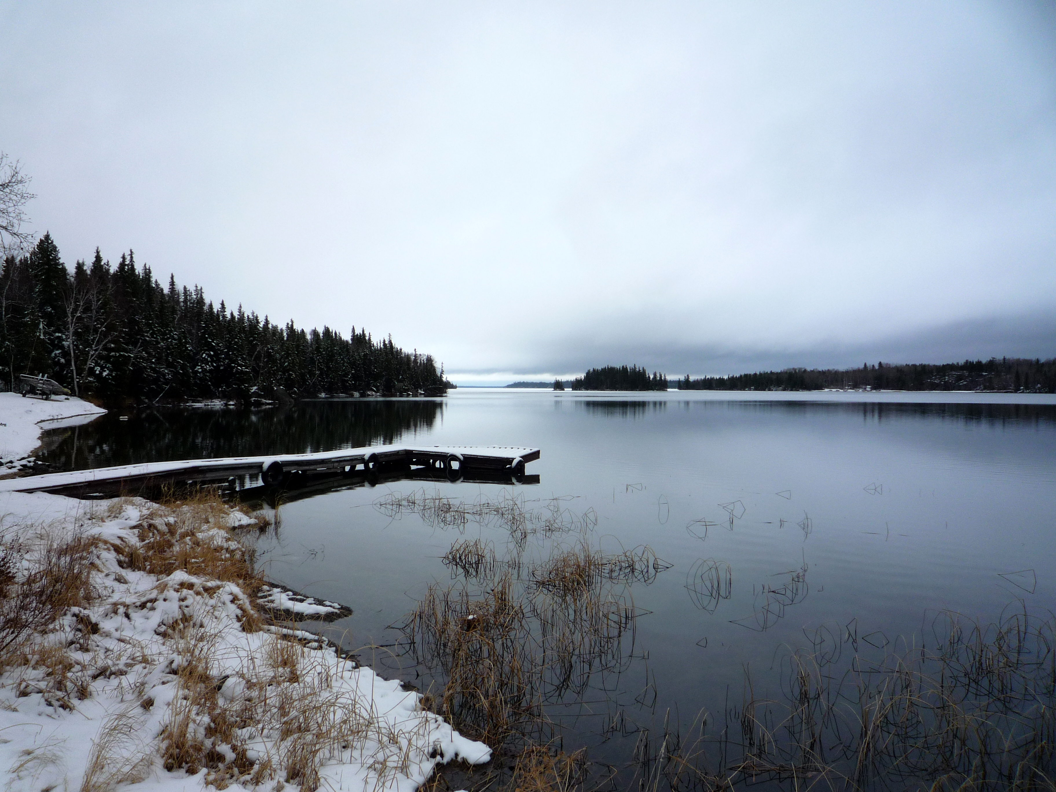 View of Lake Athapapuskow from Bakers Narrows, near Flin Flon, Manitoba. As can be seen, the region occasionally gets snow even in late May.